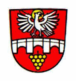 Coat of Arms of Tauberrettersheim